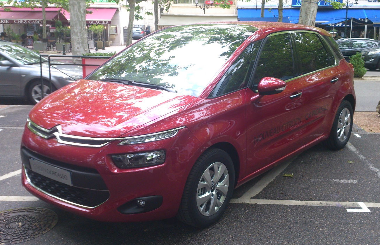 Citroën C4 Picasso II photographed in Montélimar, France.